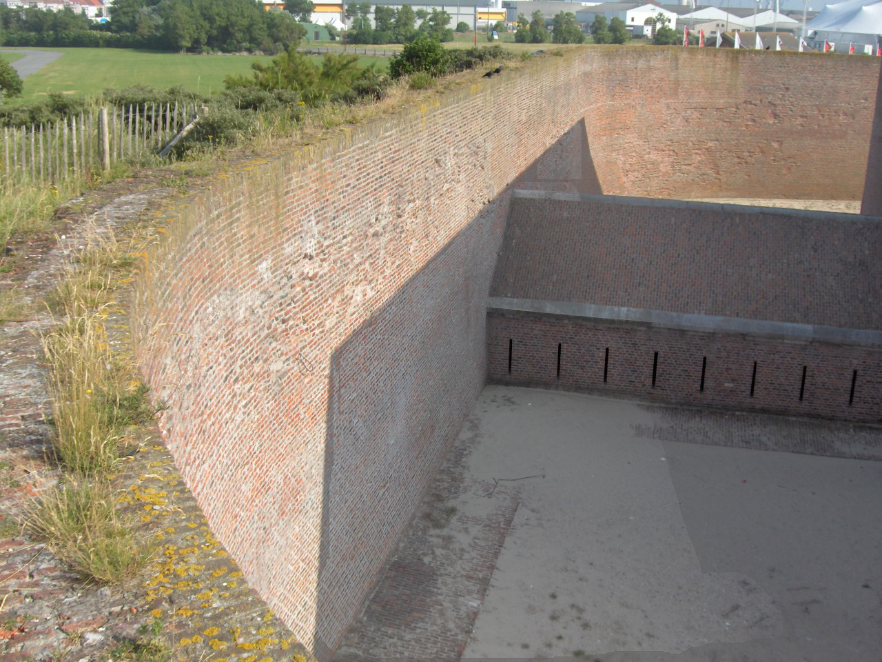 dry moat in the Fort Napoleon - Ostend, Belgium